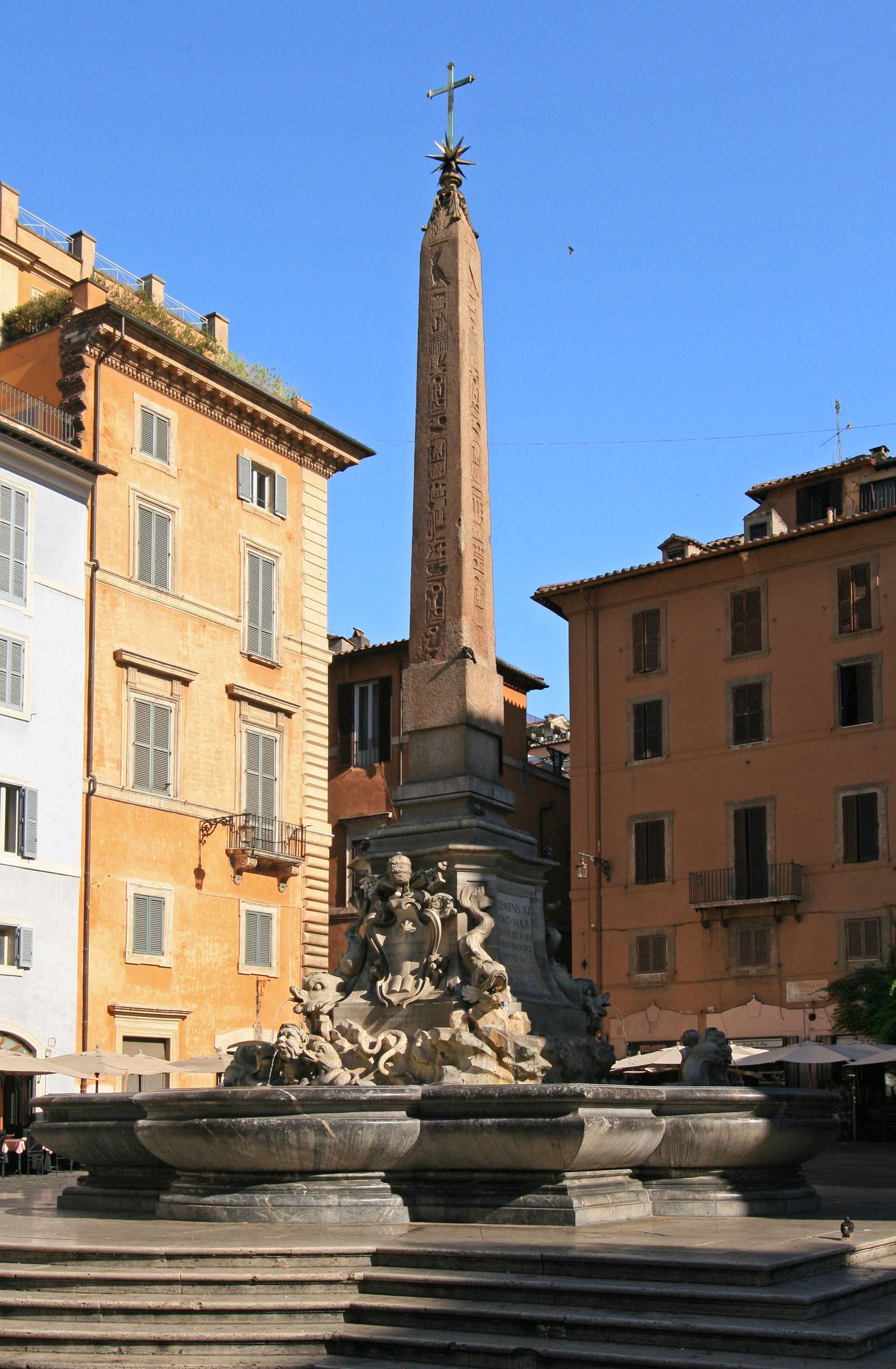 Macuteo obelisk, Piazza della Rotonda, Rome.